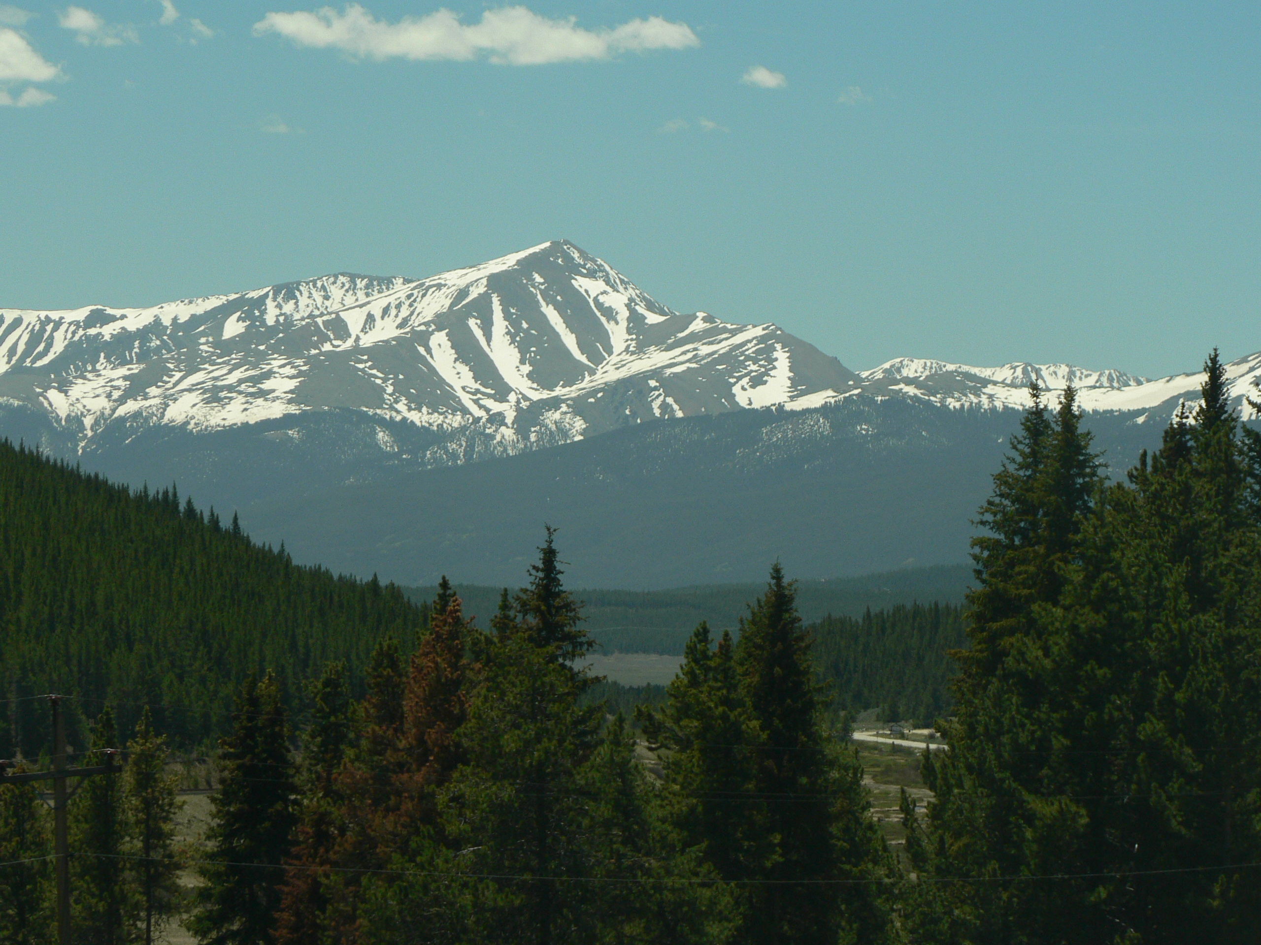 Mount Elbert in the Sawatch Range of Colorado, USAP1060339